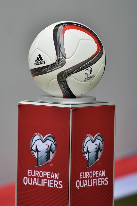 Ukraine vs Luxembourg 14062015 UEFA EURO 2016 Qualifying round - Group C